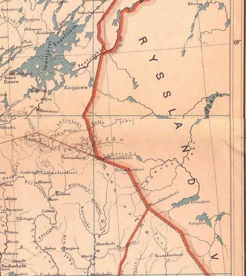 Map of Lake Inari and Maanselkä hills in northern Finland